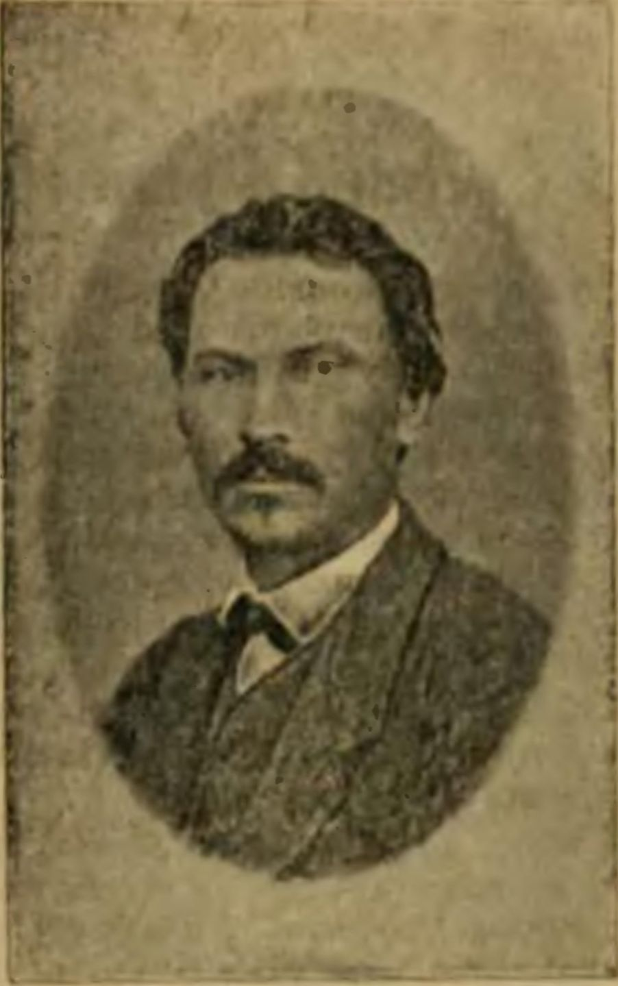 A portrait of Stepan Rudanskyi as printed in "Співомовки" (1921)